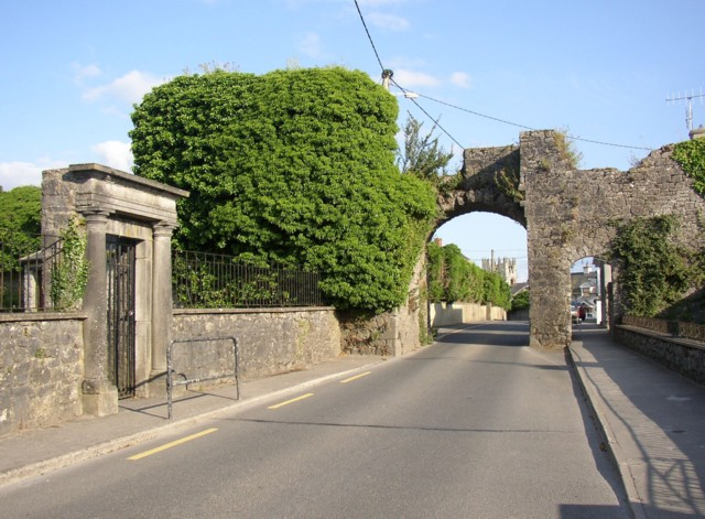 North Gate, Fethard , Co. Tipperary. This was built (or rebuilt) in the 15C. The gateway in Classical style now leads to a recreation ground.